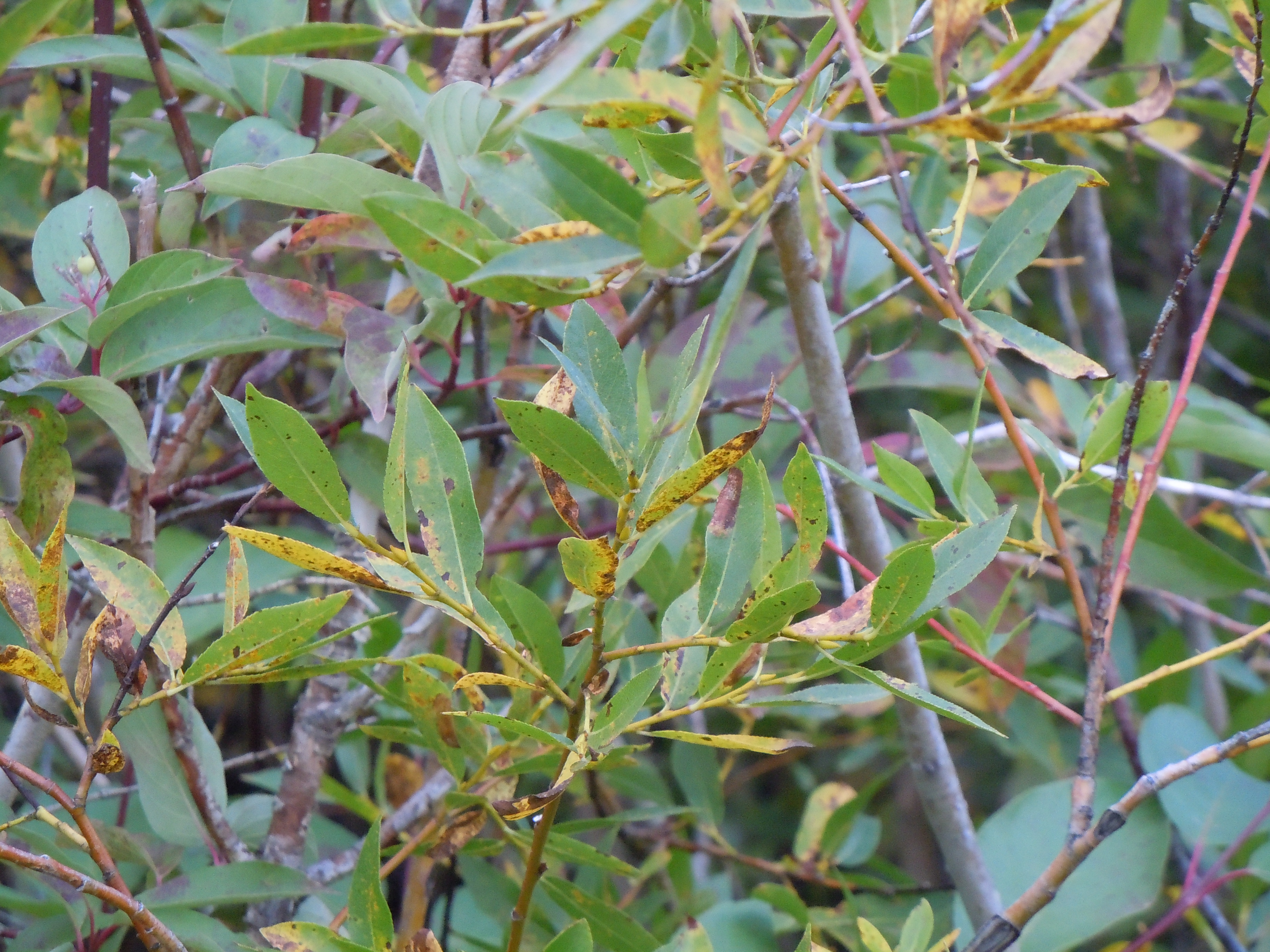 The leaves of Salix boothii (center) are about as green below as above. The leaves of Cornus stolonifera are to the left and those of Amelanchier alnifolia below in this scene.